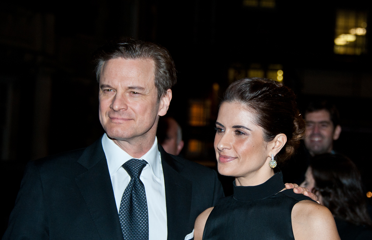 Colin Firth and Livia Giuggioli at the 2013 Harper's Bazaar Women of the Year Awards